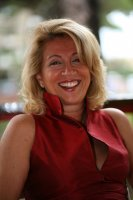 my pics